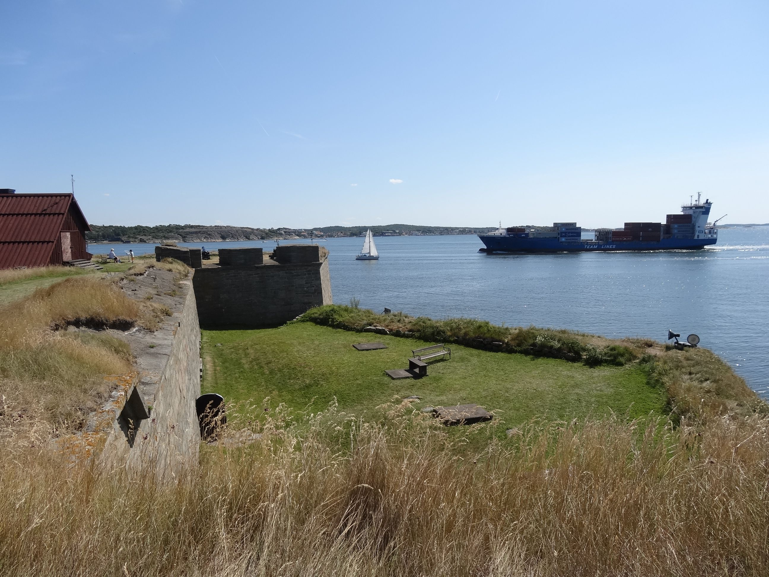 View from fortress Nya Älvsborg bastion Whale, towards south, and Gothenburg harbour inlet. In front of curtain wall 7 to the left, is the ravelin Rosegarden, and in the rear the southern bastion, Mermaid.